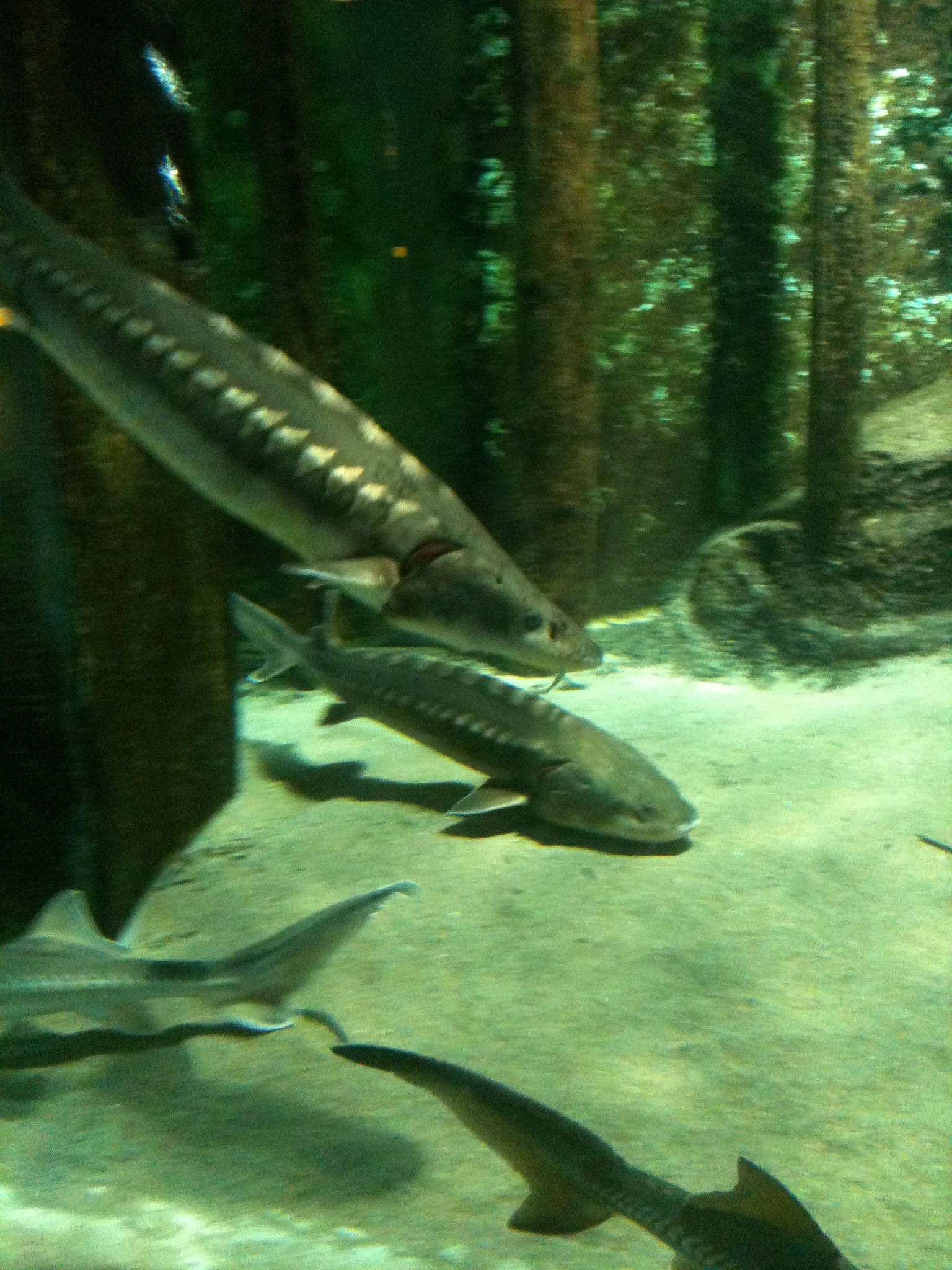 Sturgeons in Civic Acquarium of Milan ITALY